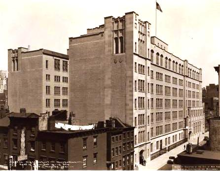 The Textile High School building at 343 West 18th Street between Eighth and Ninth Avenues in the Chelsea neighborhood of New York City. This NYC public school was subsequently known as Staubenmuller Textile High School, Charles Evans Hughes High School, High School for the Humanities and Bayard Rustin High School for the Humanities. The high school will be closed as of the end of the 2010-2011 school year, and the building houses a number of smaller schools and academies. It is currently (2010) referred to as the Bayard Rustin Education Complex (BREC), although it some sometimes called the Humanities Educational Complex.